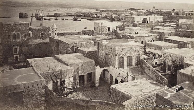 "Vue generale de Tyr (Sour) 1868 1869" Postcard from the late 19th century showing the Maronite Church, later to become the Cathedral of "Our Lady of the Seas", and the harbour area.